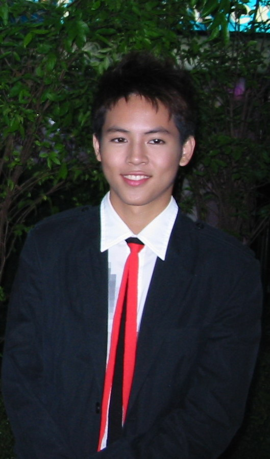 Witwisit Hirunwongkul at Star Entertainment Awards 2007